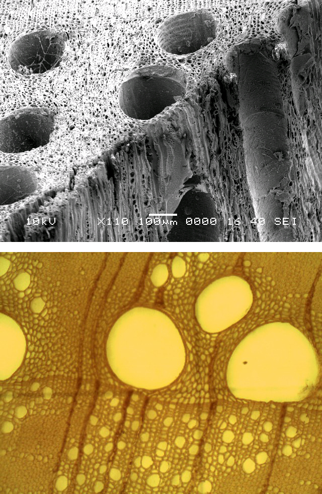 SEM image (top) and Transmission Light Microscope image (bottom) of pores Oak